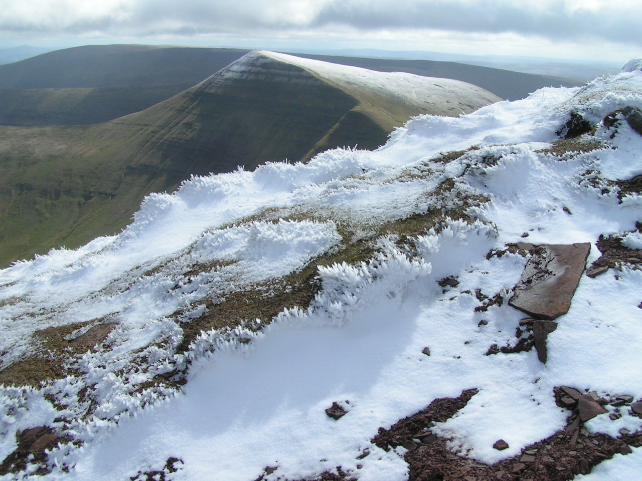 Cribyn from Pen y Fan